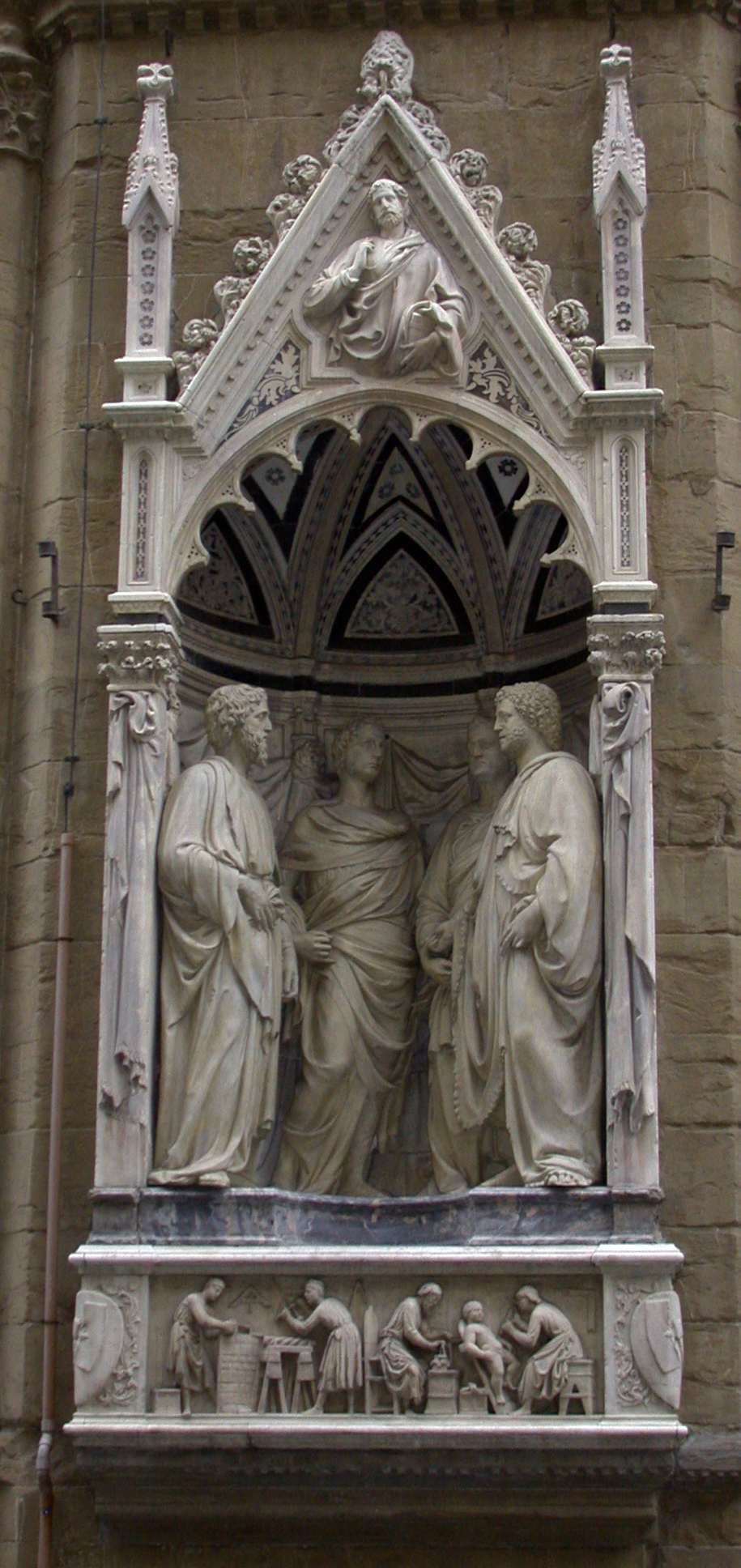 The Four Crowned Saints. Statue commissioned by the Arte dei Maestri di Pietra e Legname (guild of wood and stone cutters). Orsanmichele, Florence.